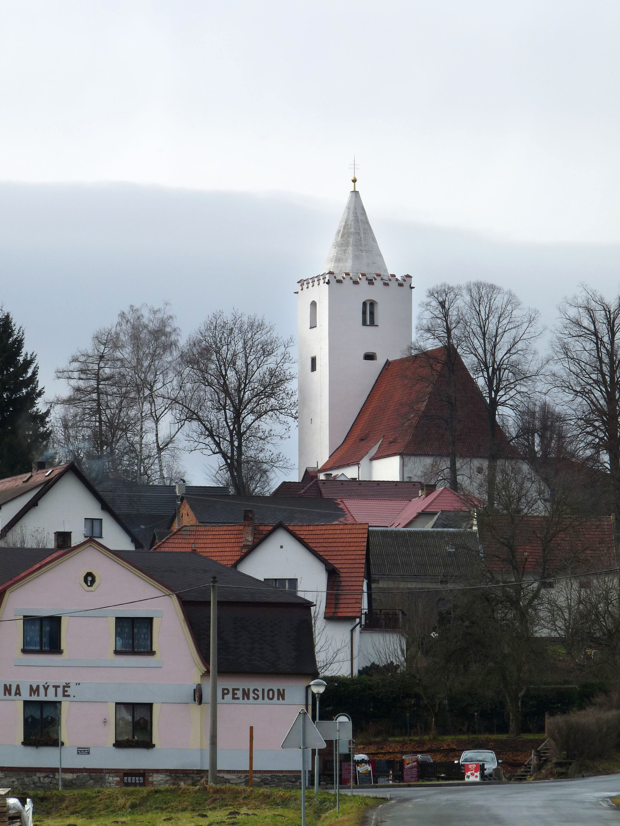 Church of Saints Peter and Paul in the village of Petrovice u Sušice, Klatovy District, Plzeň Region, Czech Republic.